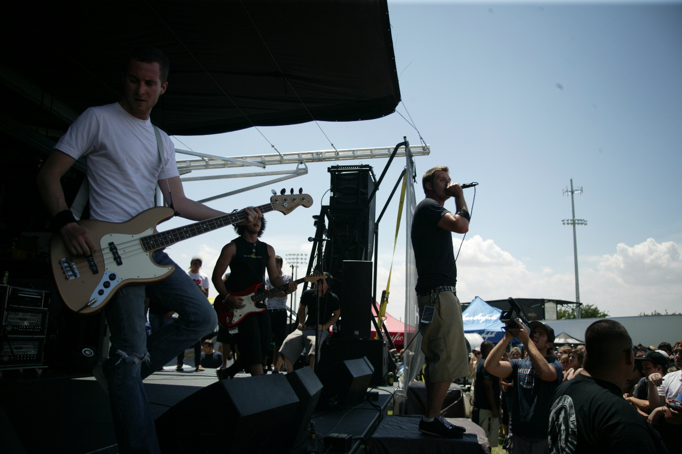 Amber Pacific, 2007 Warped Tour, Las Cruces New Mexico, 12JUL, Photograph by John Kloepper